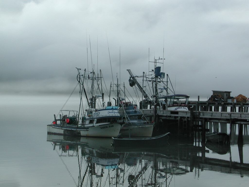 Here two local salmon seiners and a gillnetter are tied to the Peter Pan "Coal Slip" in False Pass. These local salmon boats start fishing about June 1st and often fish until mid-September, depending on the season openings and the availability of the four salmon species that are native to the area.